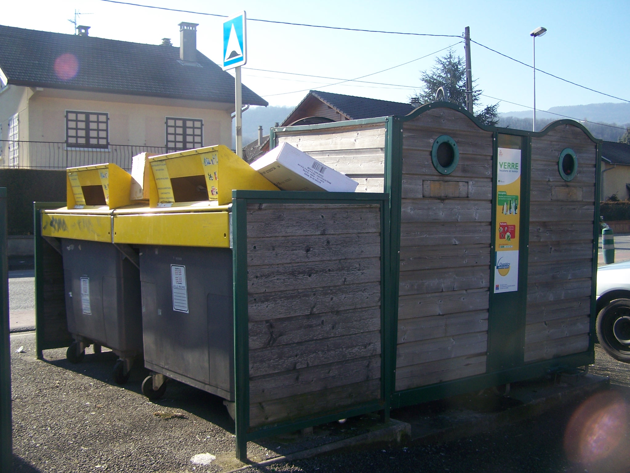 Yellow garbage containers, symbol of the environmental policy, here in the agglomeration of Chambéry Métropole in Savoie, France.